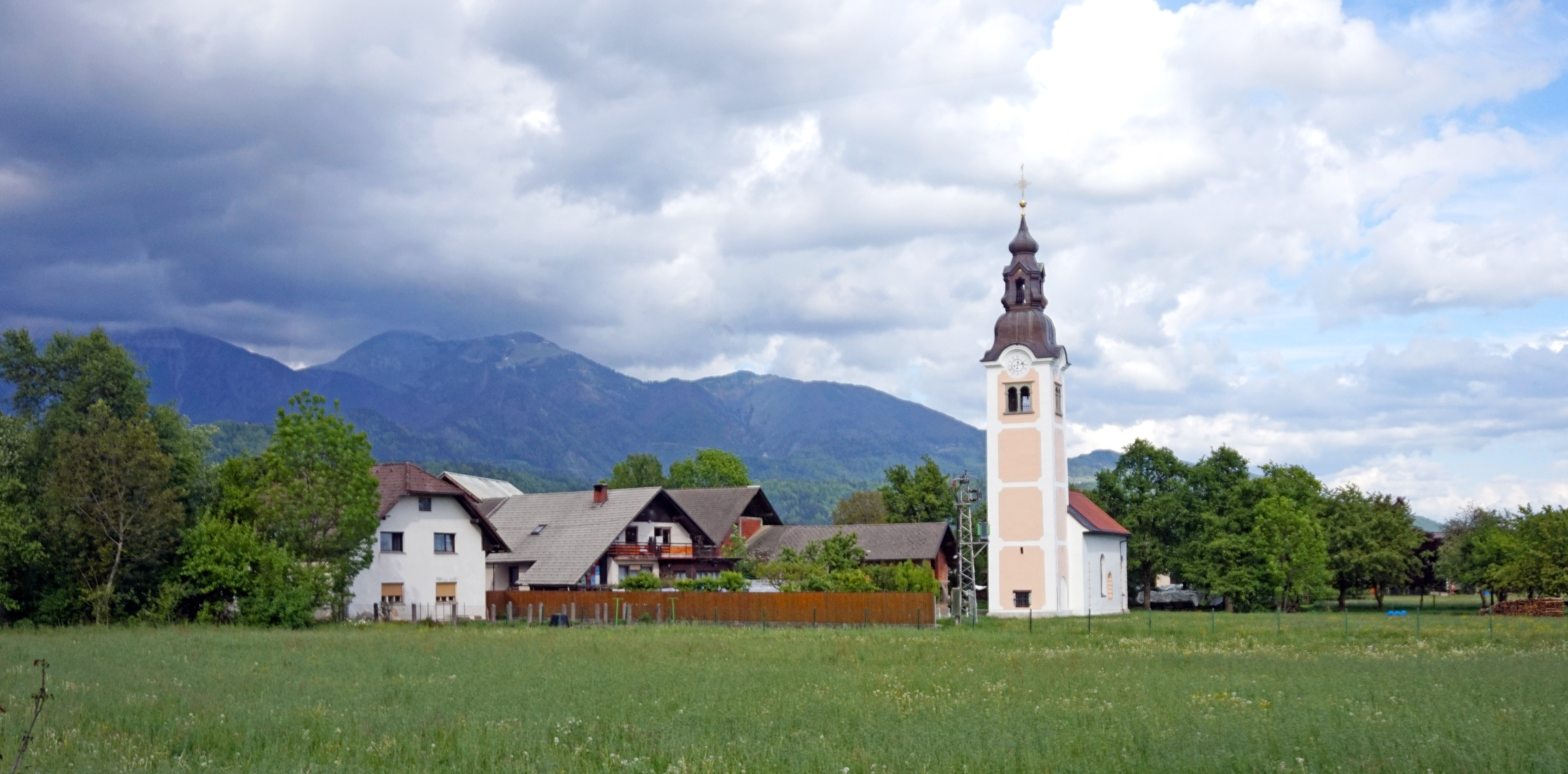 Luže in Slovenia.This photograph was taken with a Sony ILCE-5000